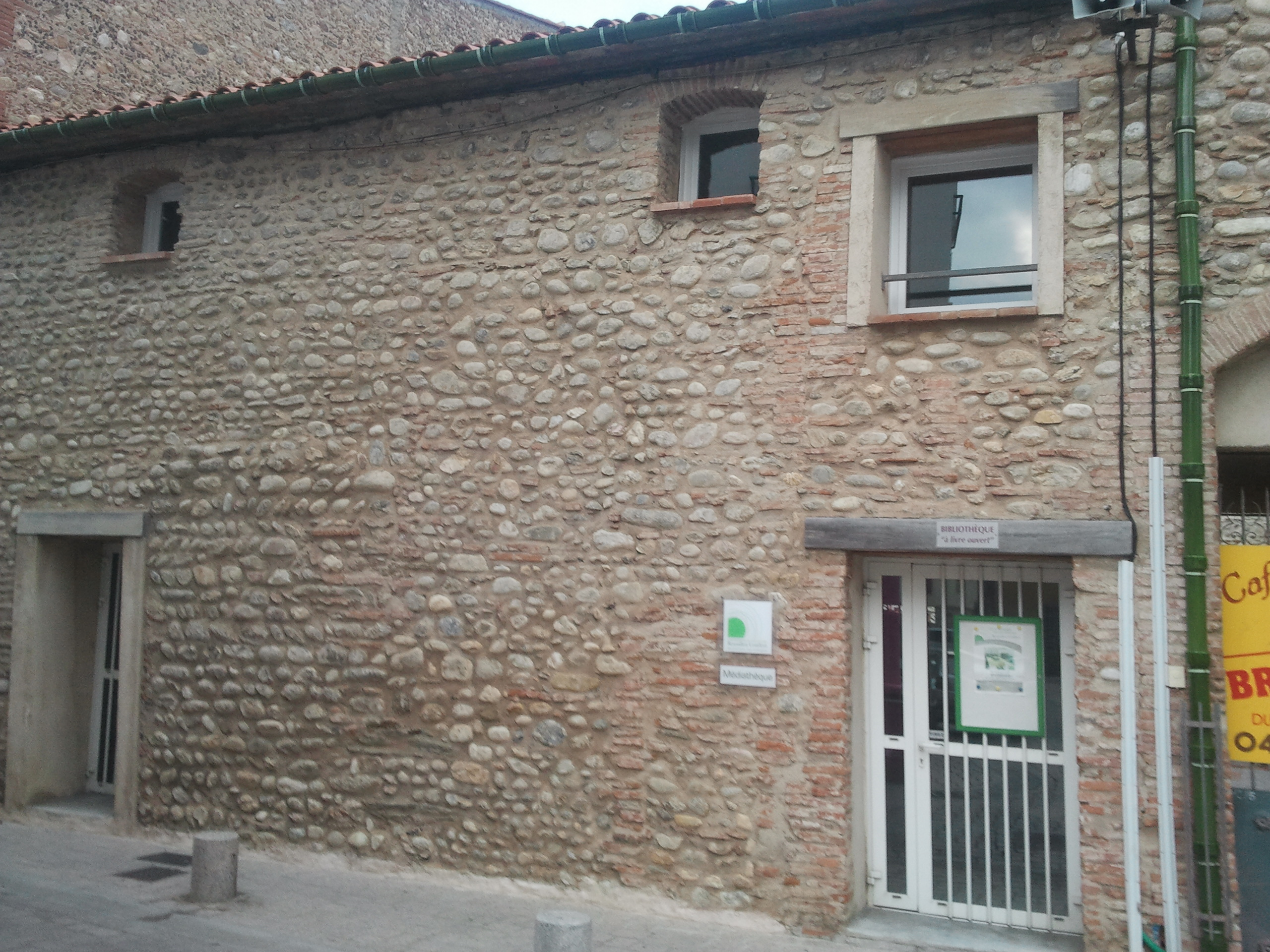 The public library in Corneilla-la-rivière